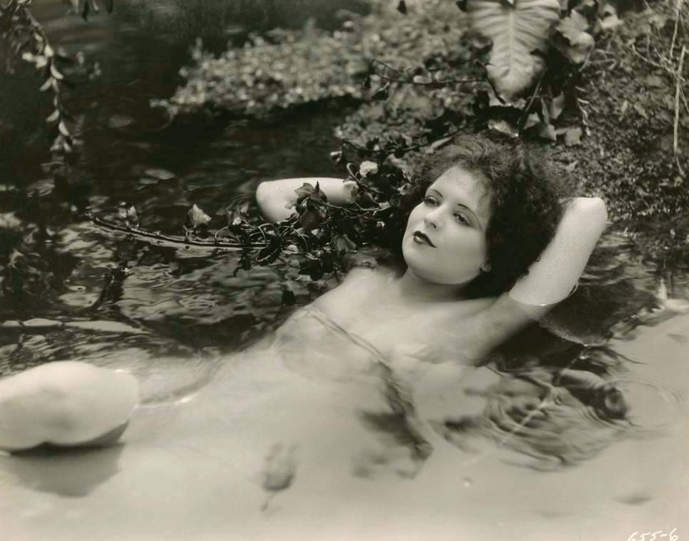 Publicity photo of Clara Bow for the film Hula (1927).